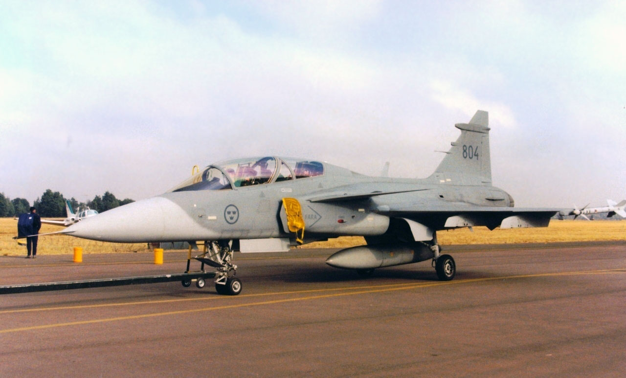 Swedish AF JAS 39B Gripen 804